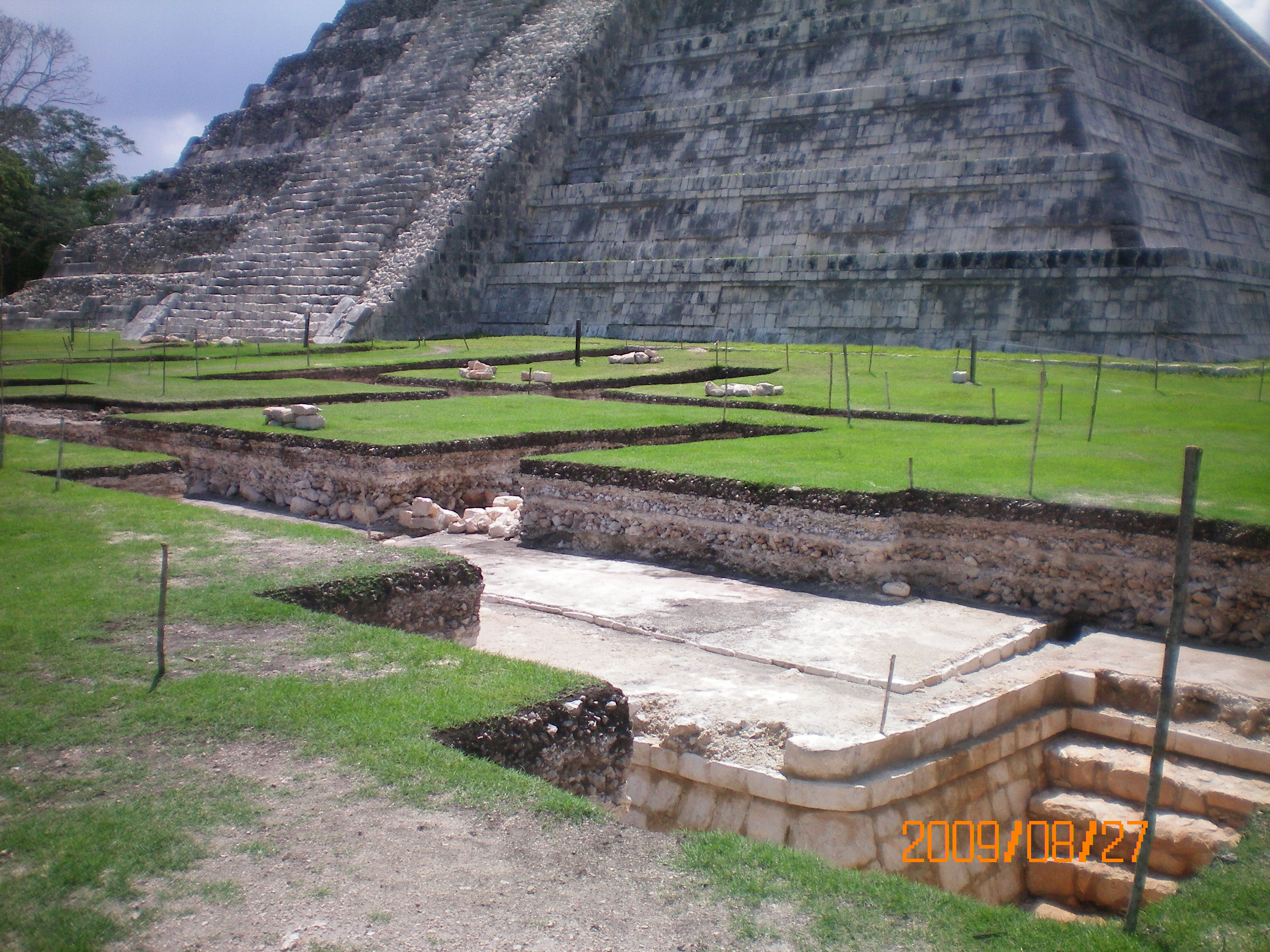 Archaelogists began excavating in 2009 adjacent to El Castillo Chichen Itza